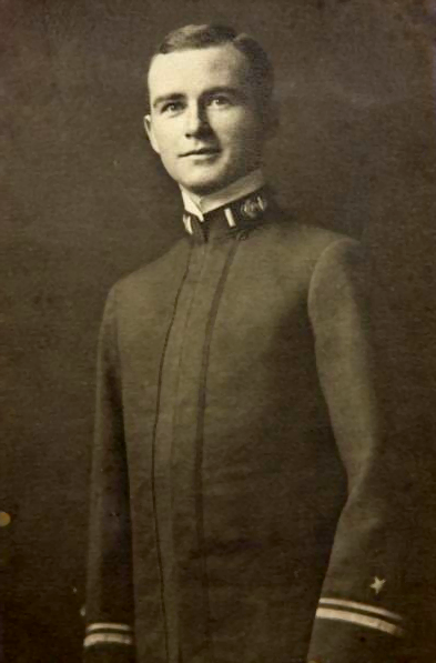 William Pigott Cronan, later a decorated Naval officer and acting Governor of Guam, a few years after graduating from the United States Naval Academy